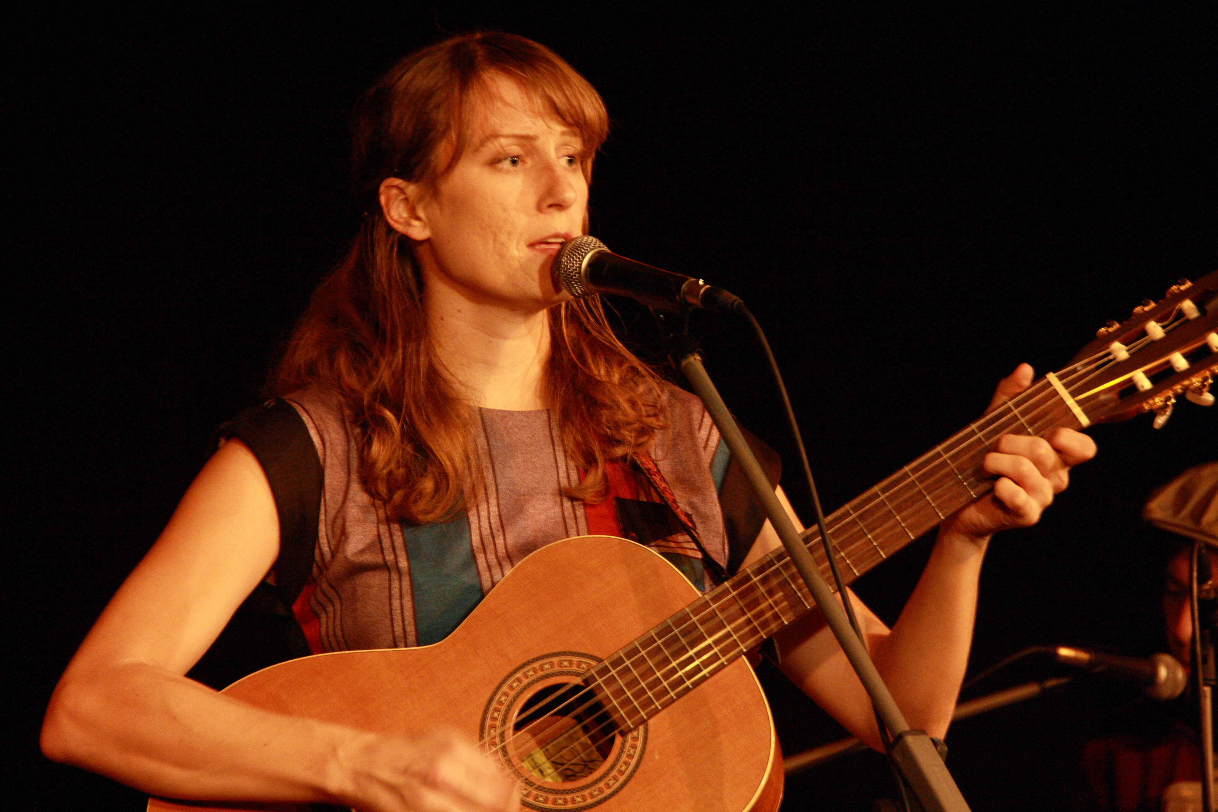 Folksinger Laura Gibson at her second concert in Europe at the Kult in Niederstetten, Germany